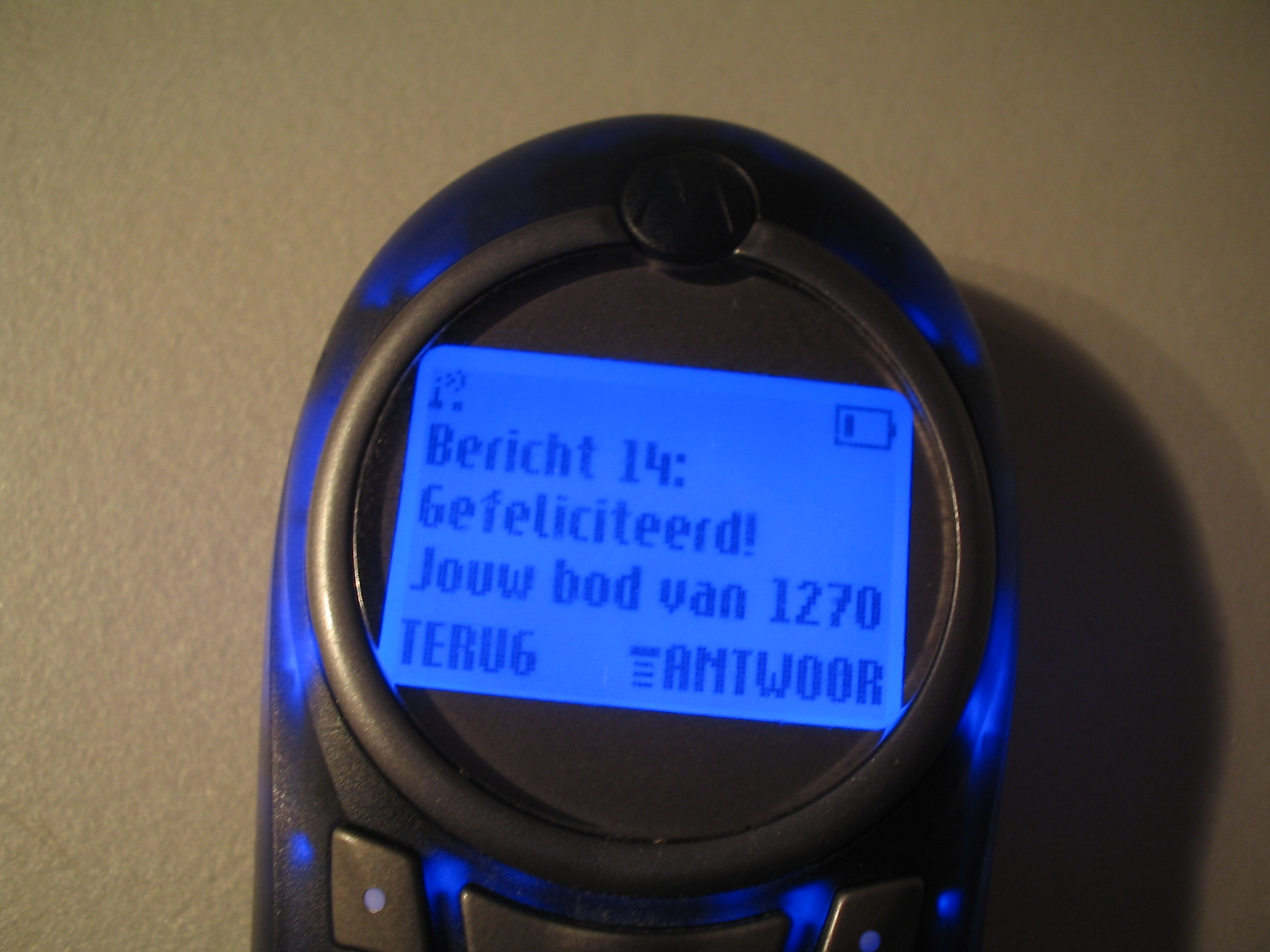 SMS text notification that 1270 cents is the lowest unique bid on a Mini Cooper.